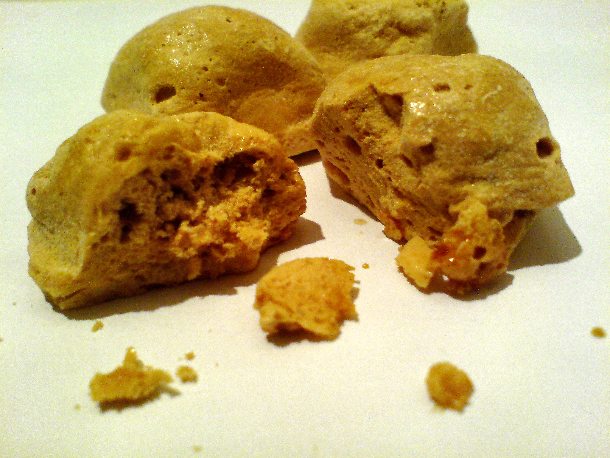 Close-up picture of cinder toffee, also known as sponge or honeycomb toffee. Picture slightly enhanced using a photo-editing tool.